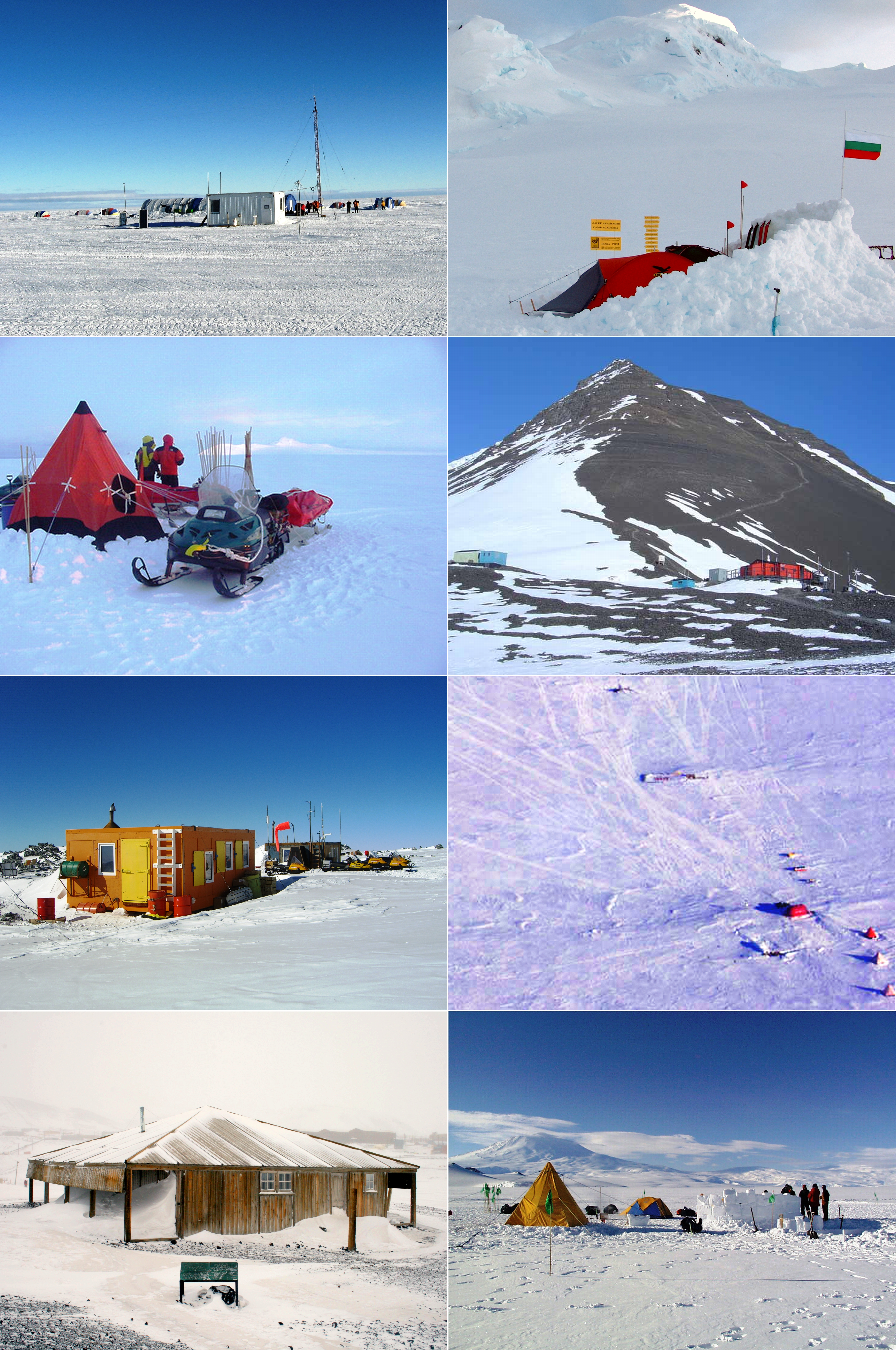 A mosaic image of Antarctic field camps deriving from the following Wikimedia Commons images: File:Patriot Hills.jpg, license GFDL-self-no-disclaimers; File:Academia-6.JPG, license cc-by-sa-3.0, GFDL; File:Kg hut new view.jpg, license PD-user-w, English Wikipedia; File:Sky blu from the air.jpg, GFDL-user-en-with-disclaimers; File:Tenterebus.jpg, license PD-USGov-NSF; File:Scotts Hut Antarctica.jpg, license self-cc-by-3.0; File:CIMG2206.JPG, license PD-self; and File:Casanovas Peak.JPG, cc-by-sa-3.0, GFDL.